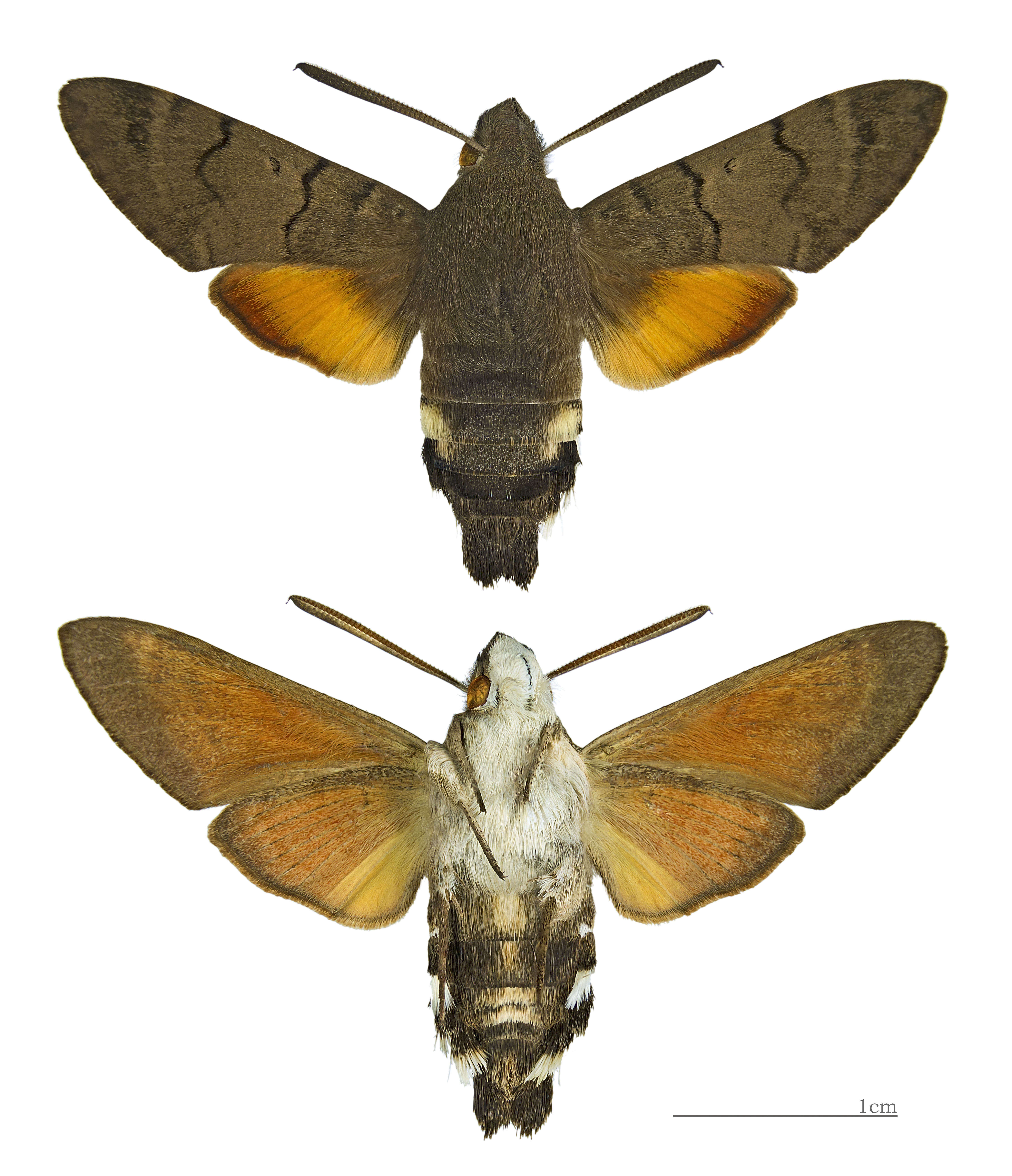 Hummingbird Hawk-moth - Two views of same specimen